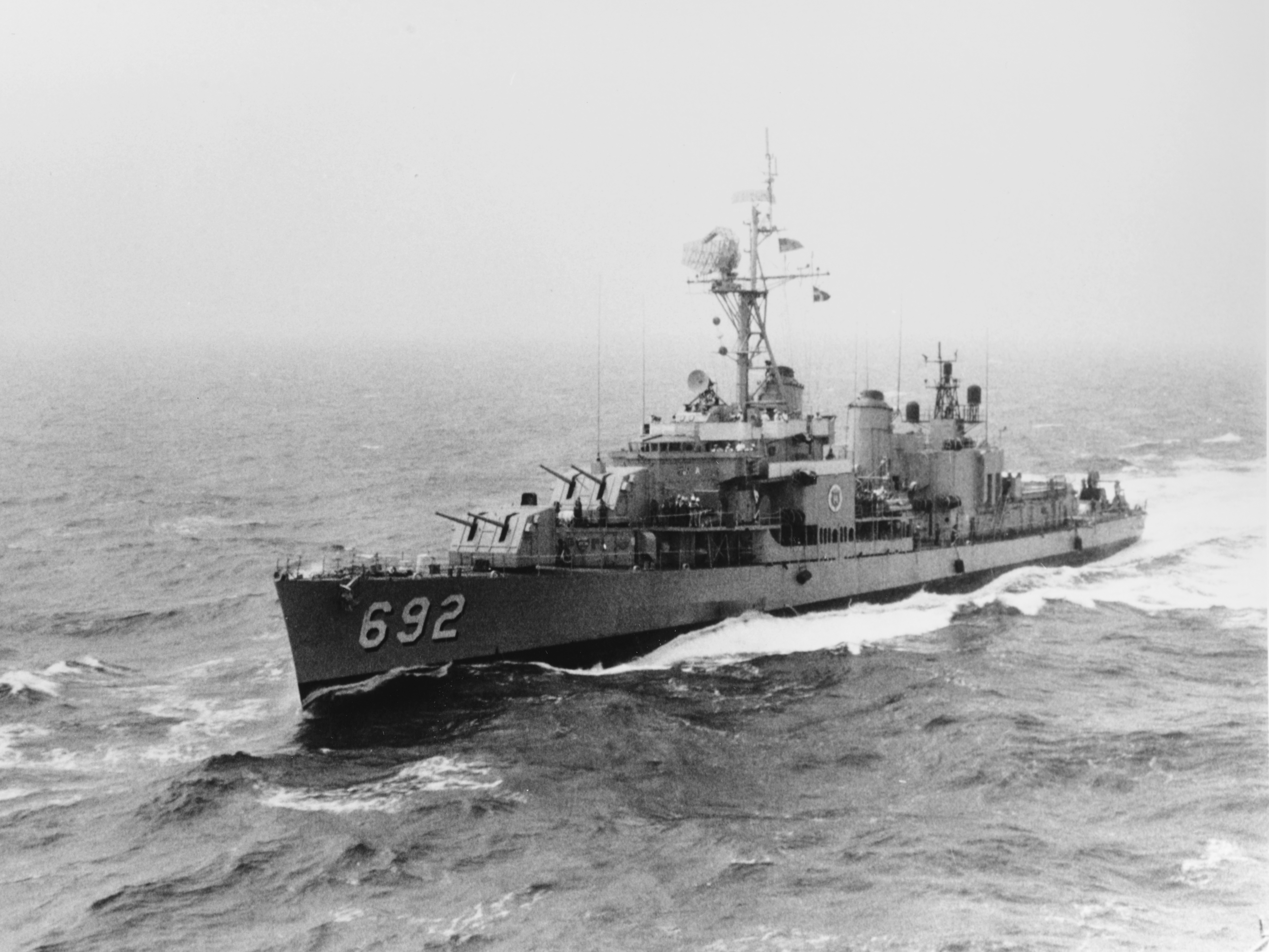 The U.S. Navy destroyer USS Allen M. Sumner (DD-692) as seen from the fast combat support ship USS Seattle (AOE-3), 28 August 1970.